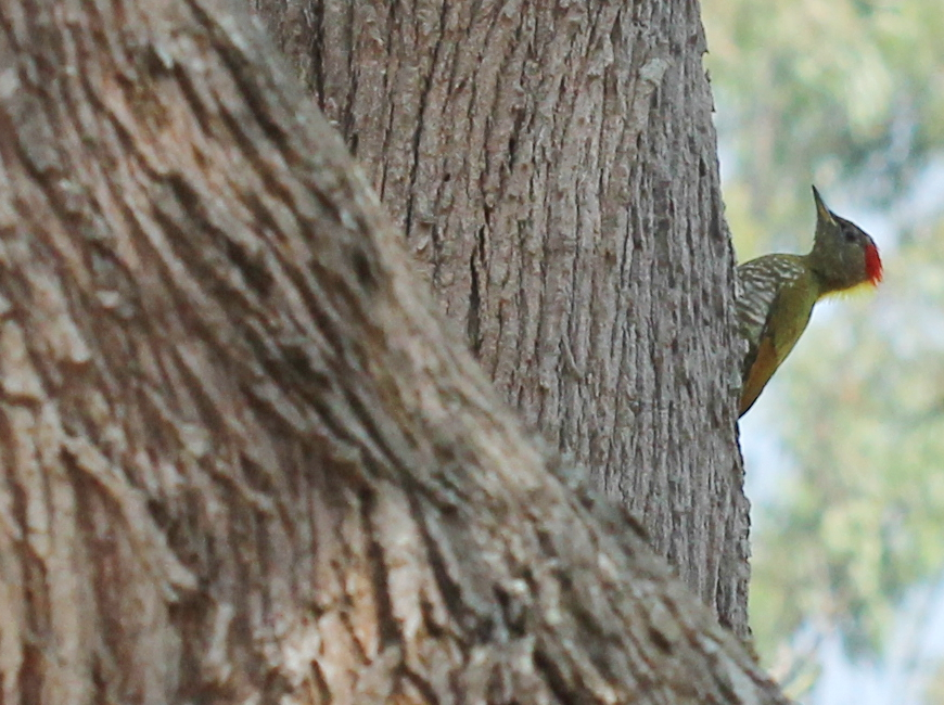 streak throated woodpecker at br hills , india